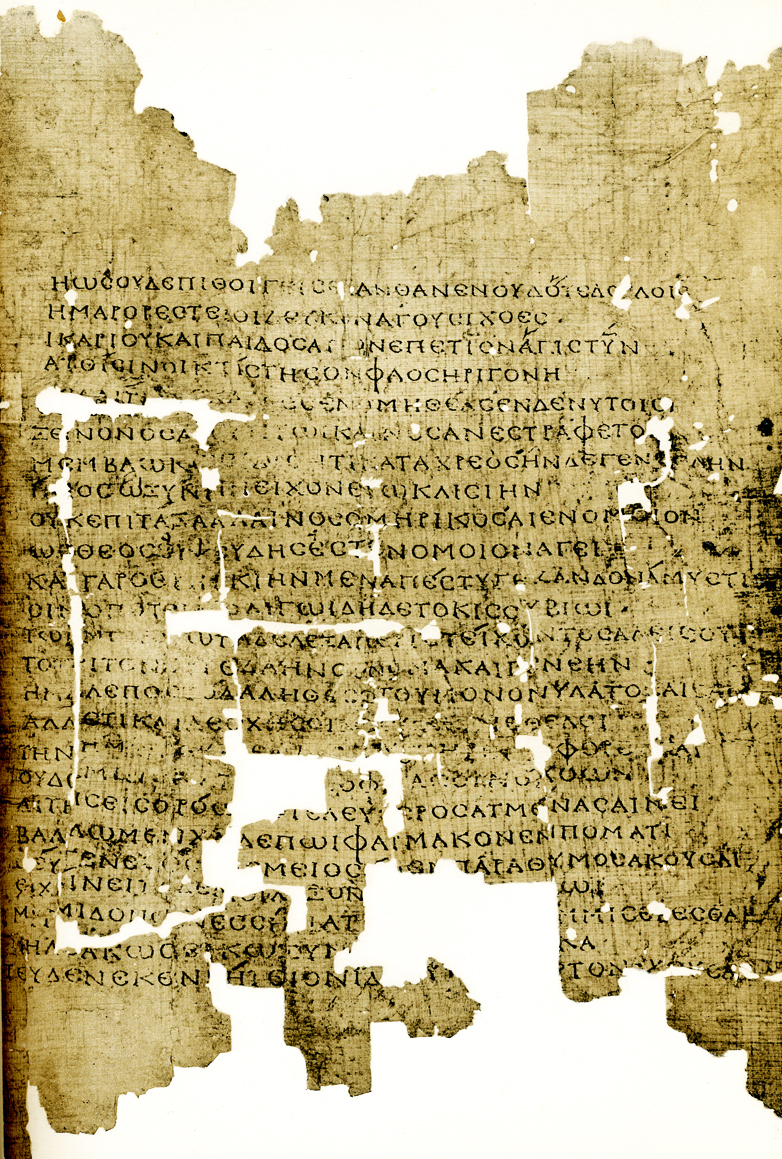 A 2nd century CE papyrus of Callimachus' Aetia (fr. 178 Pf.)